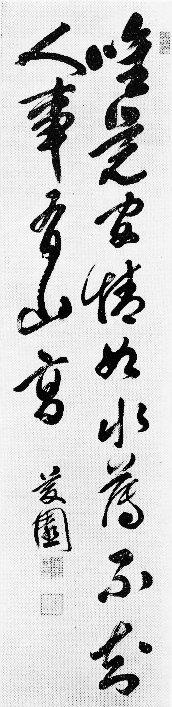 Calligraphy of Gentaro Kodama "Shichigon-niku"